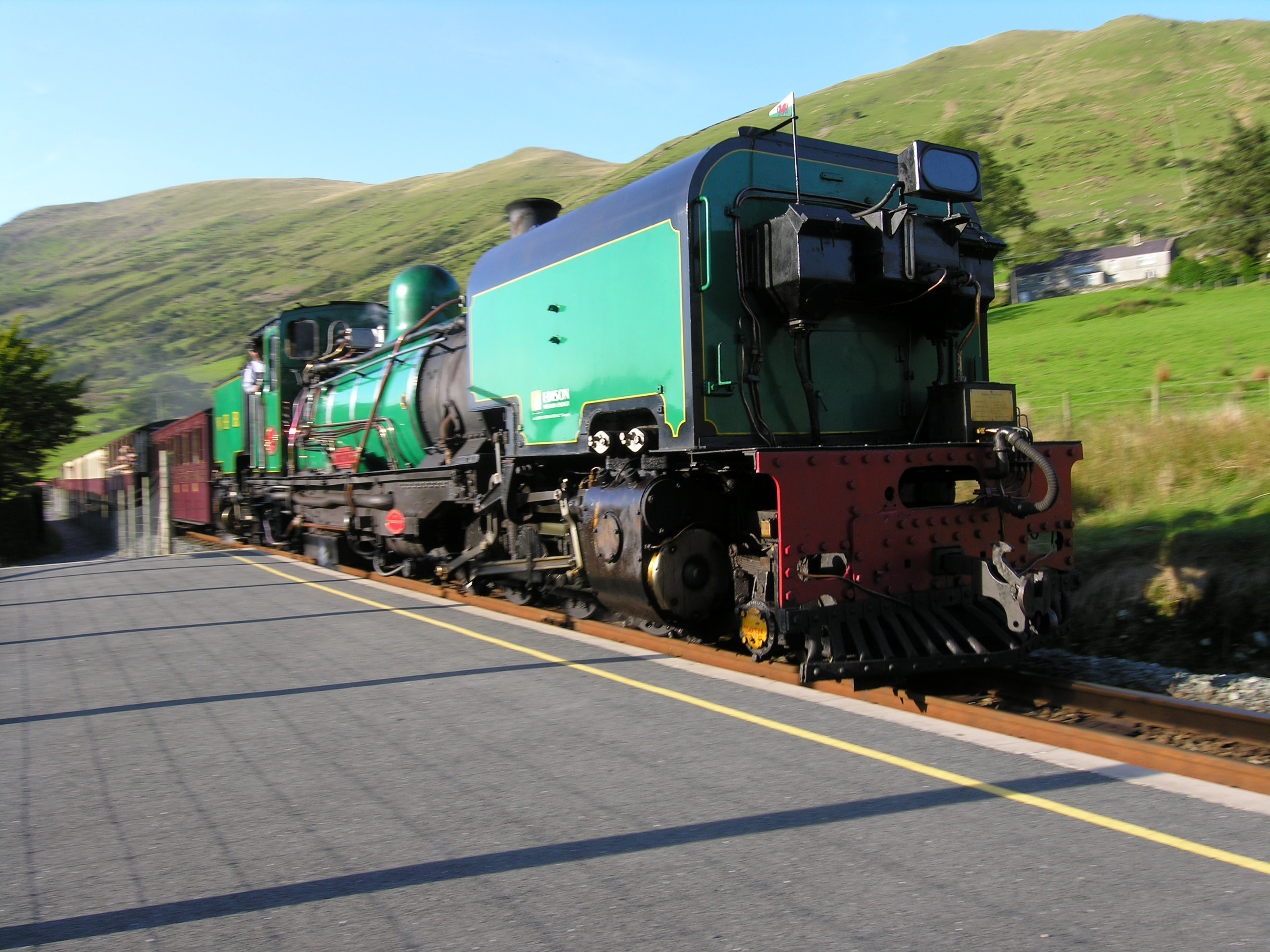 Picture by vanoord.